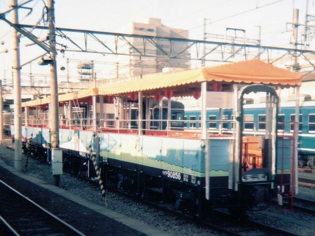 East Japan Railway Company, Freight car Type Tora90000 at Takasaki Sta. 高崎支社のトロッコ列車用に改装された車両